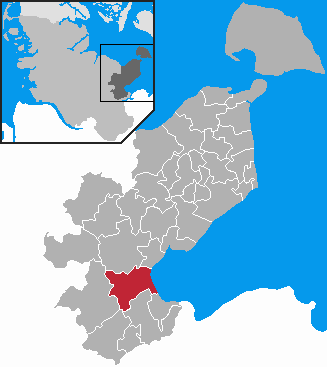 This map shows the area of the Gemeinde (municipality) Scharbeutz in the Kreis (district) Ostholstein, Schleswig-Holstein, Germany.